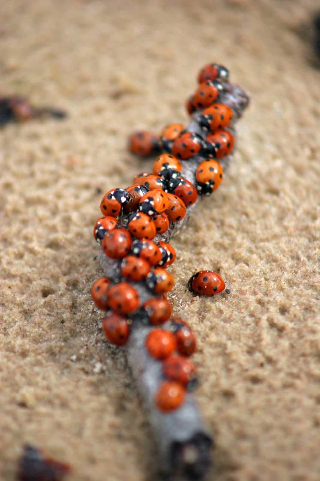 ladybugs on Jurmala beach